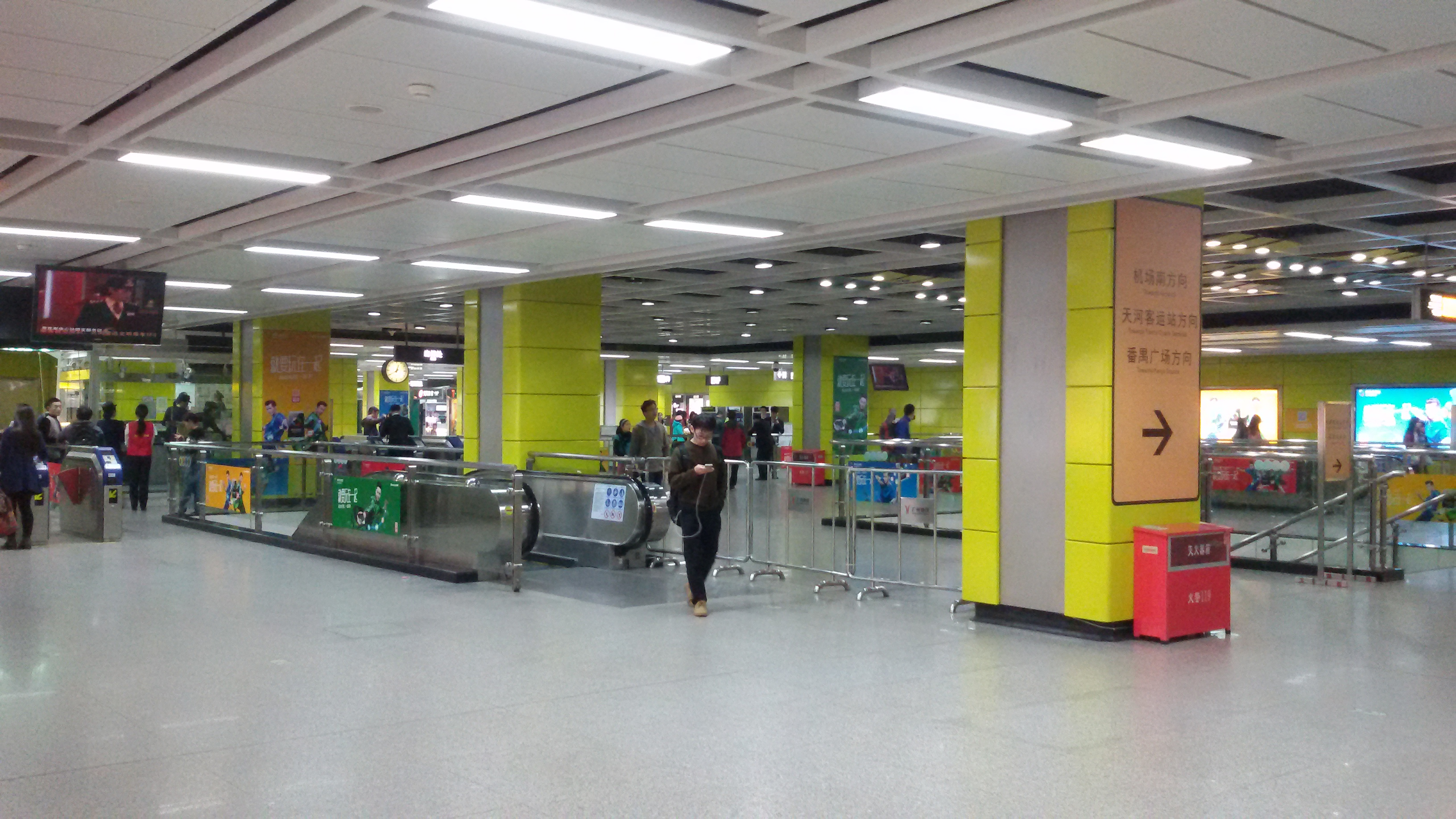 Platform for Line 3 in TiyuXilu Station, Guangzhou Metro